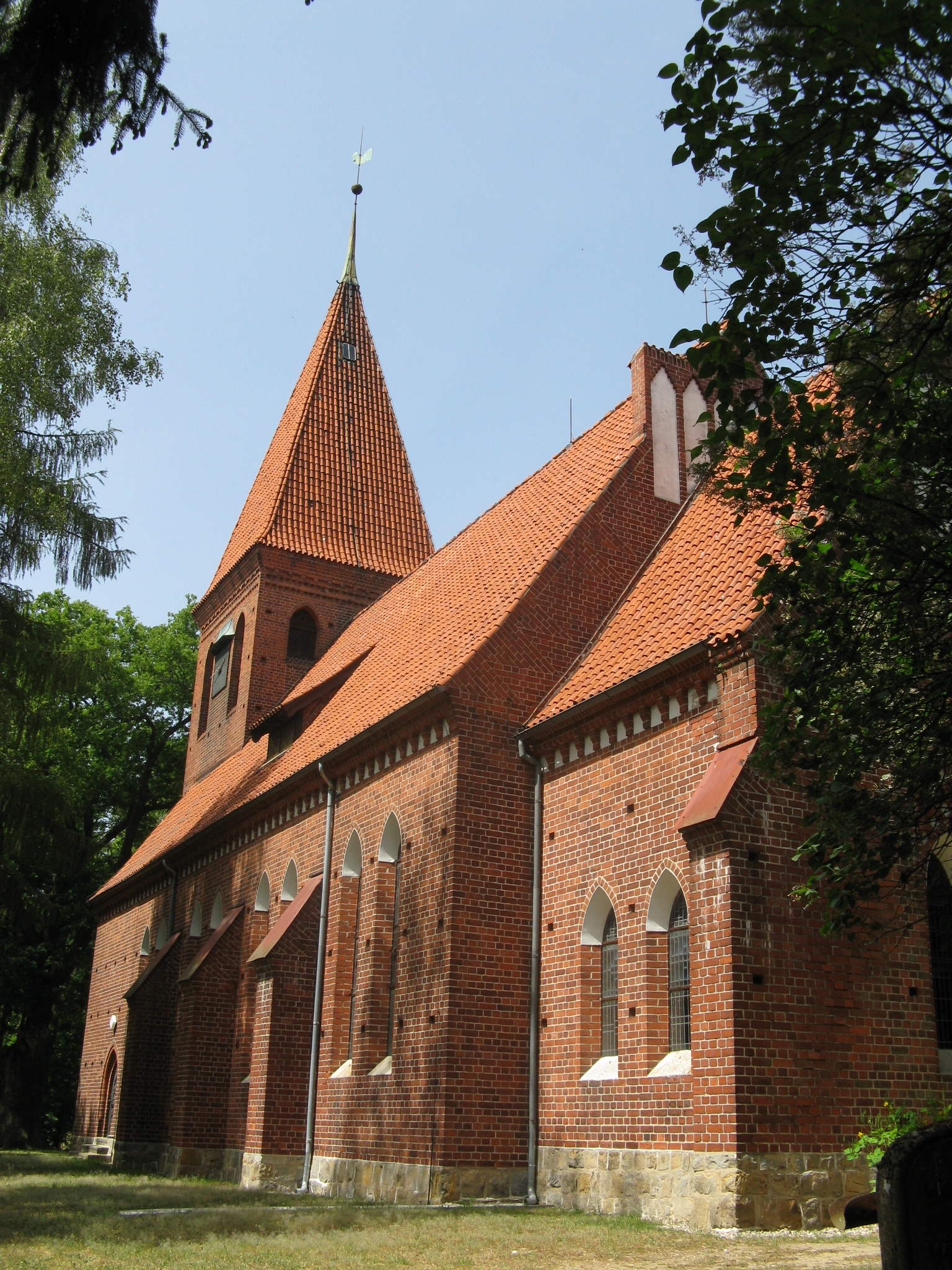 Church in Alt Jabel (Vielank), Mecklenburg-Vorpommern, Germany